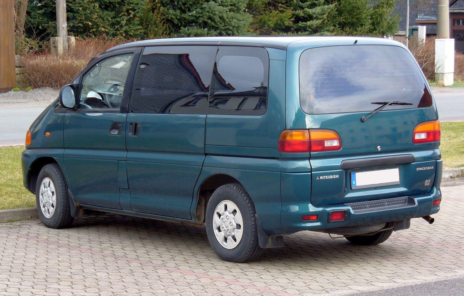 2006 Mitsubishi Space Gear GLX (European market name for the L400 series Mitsubishi Delica Space Gear)